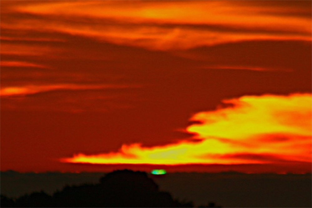 A little understood cloud-top green flash in San Francisco, California.